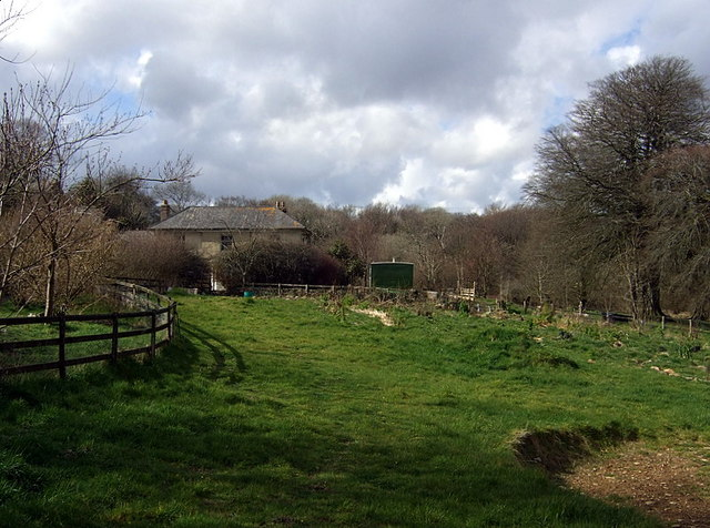 Temple Druid This is the third house on this site. There was an original farmhouse called Bwlch-y-clawdd that was demolished for the construction of a gentleman's hunting lodge in 1795. The famous architect John Nash was engaged to design it, according to Richard Fenton "on a elegant plan, finished and furnished to accommodate itself to the tastes and habits of its first late modern possessors, accustomed to fashionable life". Nash gave it a grand stone staircase and other splendid features but it passed through a succession of owners before being partially dismantled in 1824 and rebuilt. During WW2 it was taken over by the writer Leo Walmsley who took in evacuees and others in need of refuge (including the novelist Nevil Shute), and wrote about the place, as Druid's Castle, in his book 'Happy Ending'. In the same spirit, the mansion's latest function is as a therapeutic retreat for those who have suffered trauma